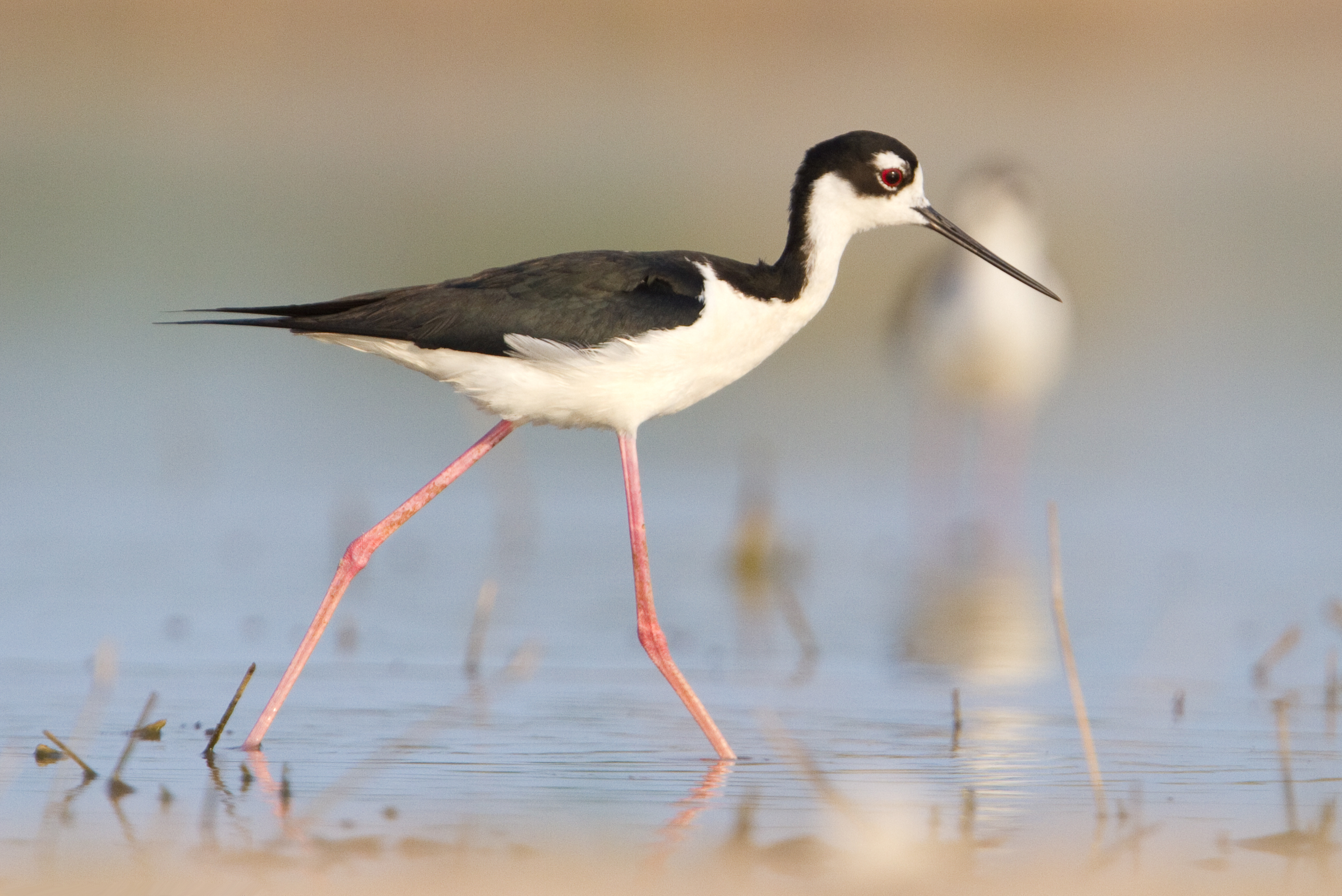 Black-necked Stilt of Quintana Texas